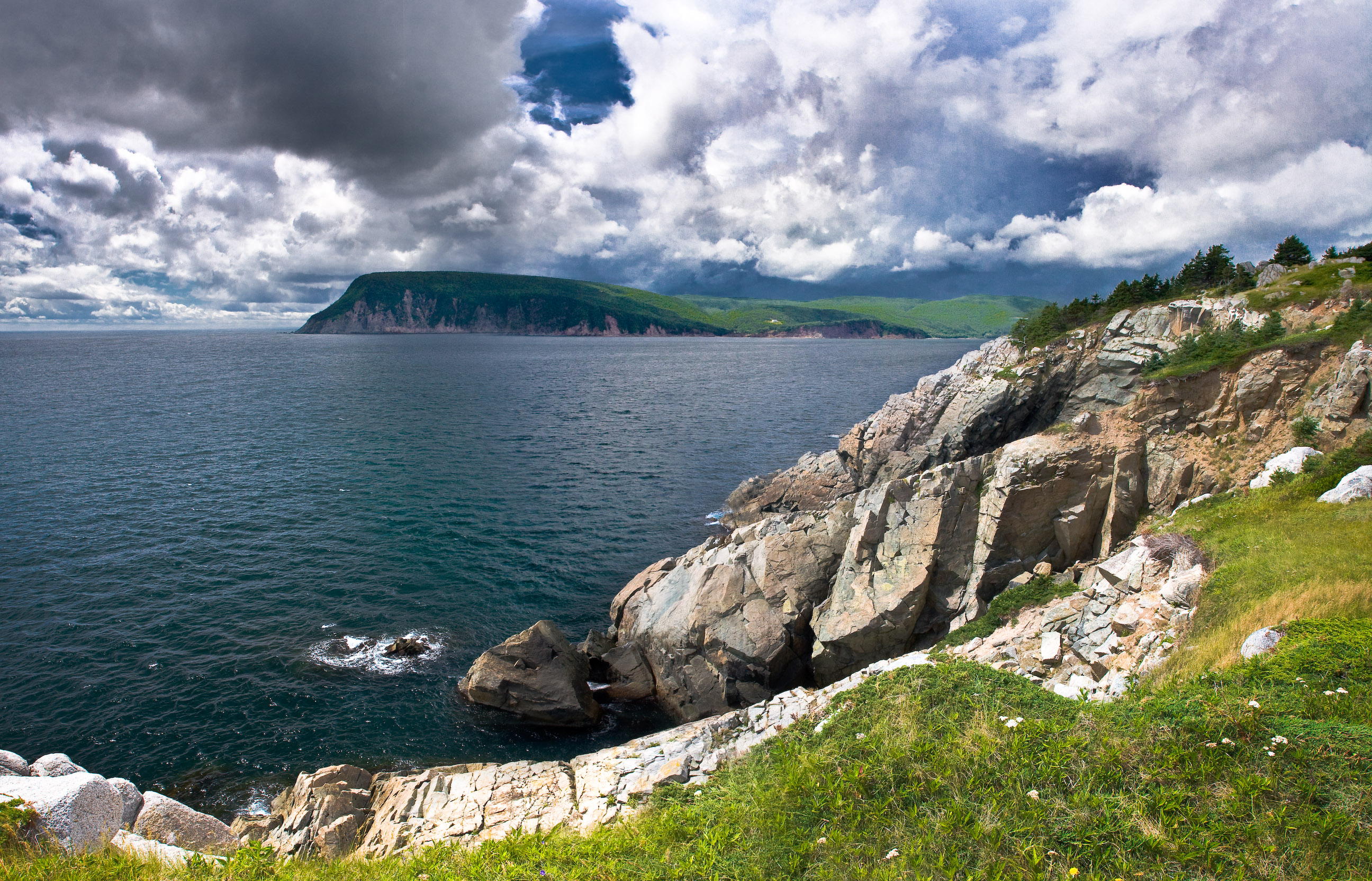 From my trip to the Maritime provinces last year. I still have a bunch of images that I need to revisit. Cape Breton is one of my favorite places especially at the end of the Middlehead trail. This was my second time there, a little less action in the water but we were right in between a big rainstorm, the clouds really were as dark as they look, I just brought out some extra details in the sky in this shot (besides the fact that it was a 2x2 stitch).